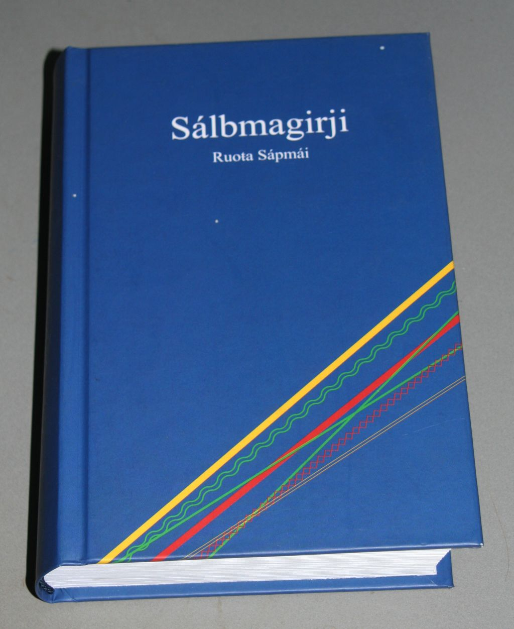 The hymnal in Northen Sami languge for the Church of Sweden